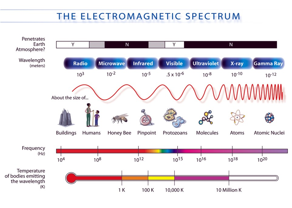 The spectrum showing highly detailed parts of it